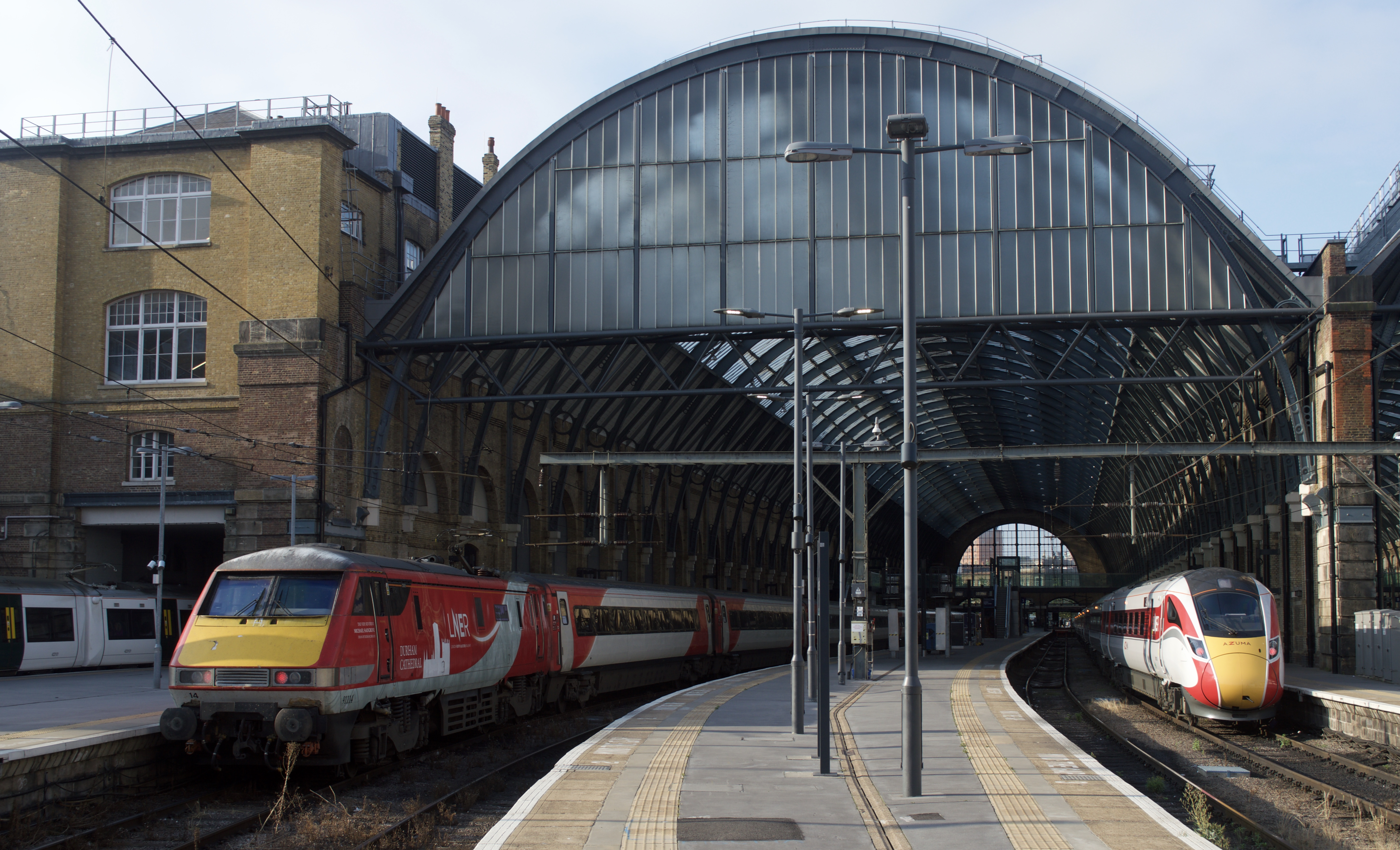 London North Eastern Railway at London Kings Cross on 1 August 2019 which was the day of the first passenger service of the Hitachi Europe built class 800 "Azuma" sets between here and Edinburgh. On the left is 91114 "Durham Cathedral" and it's set of Mk 4 coaches introduced in 1989 following electrification of the East Coast Main Line on 1S07, 08:00 to Edinburgh. Over on the right is 800110 on 1D05, 08:03 to Leeds.